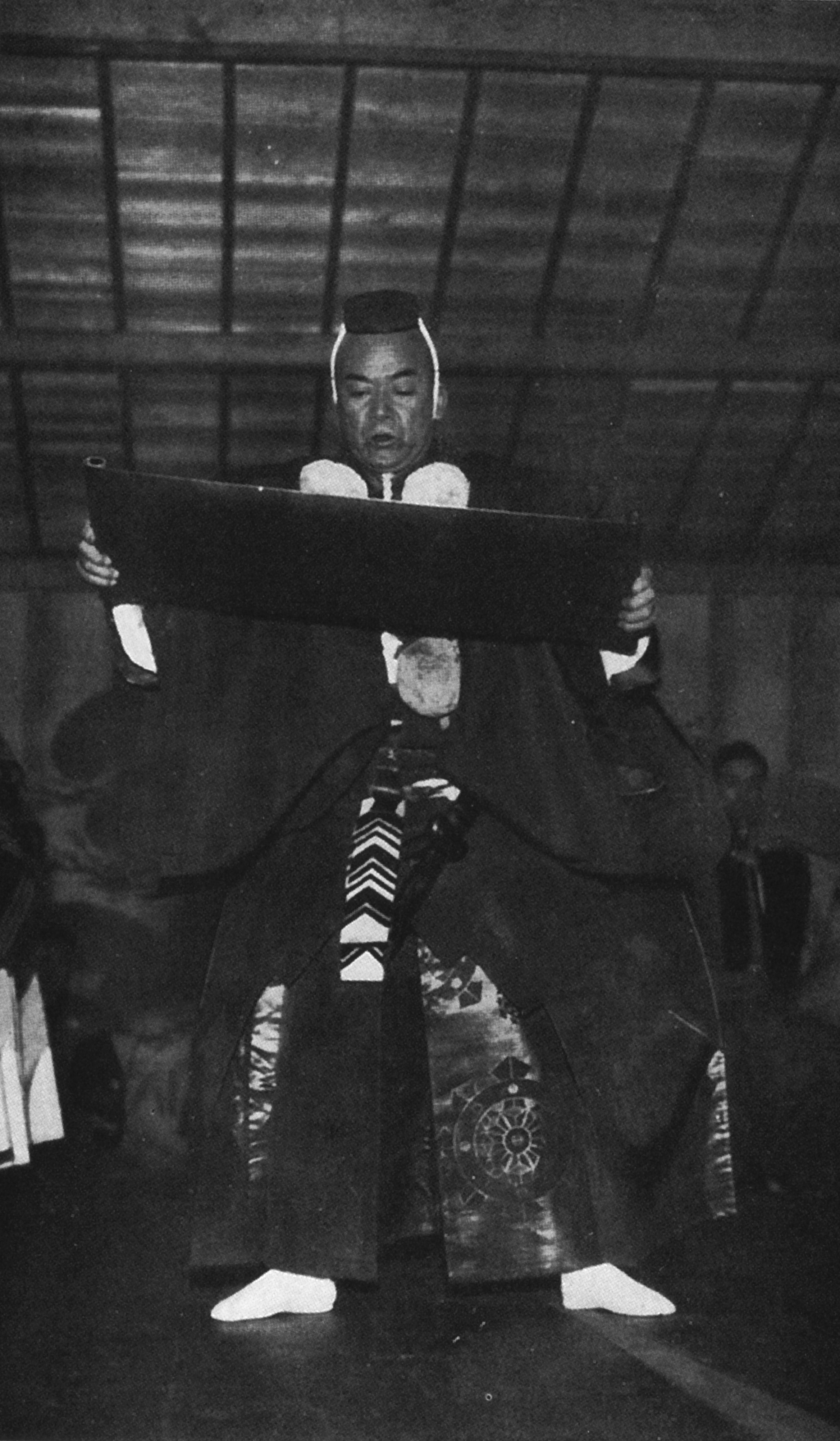 Japanese No actor UMEWAKA Mansaburo 1st(1869 - 1946), No play ATAKA